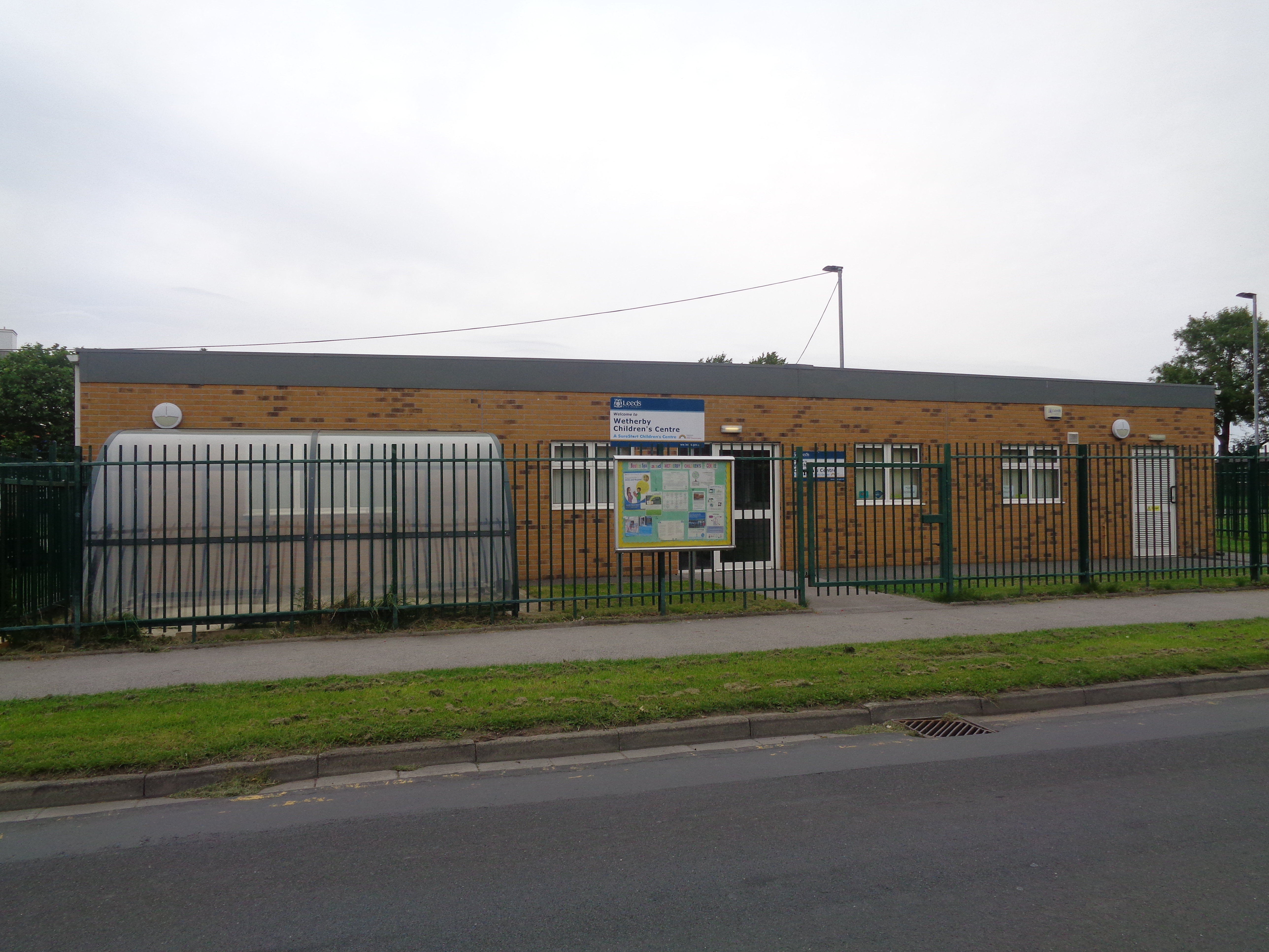 Wetherby Children's Centre, a Sure Start centre on Hallfield Lane in Wetherby, West Yorkshire. Taken on the evening of Sunday the 30th of October 2015.